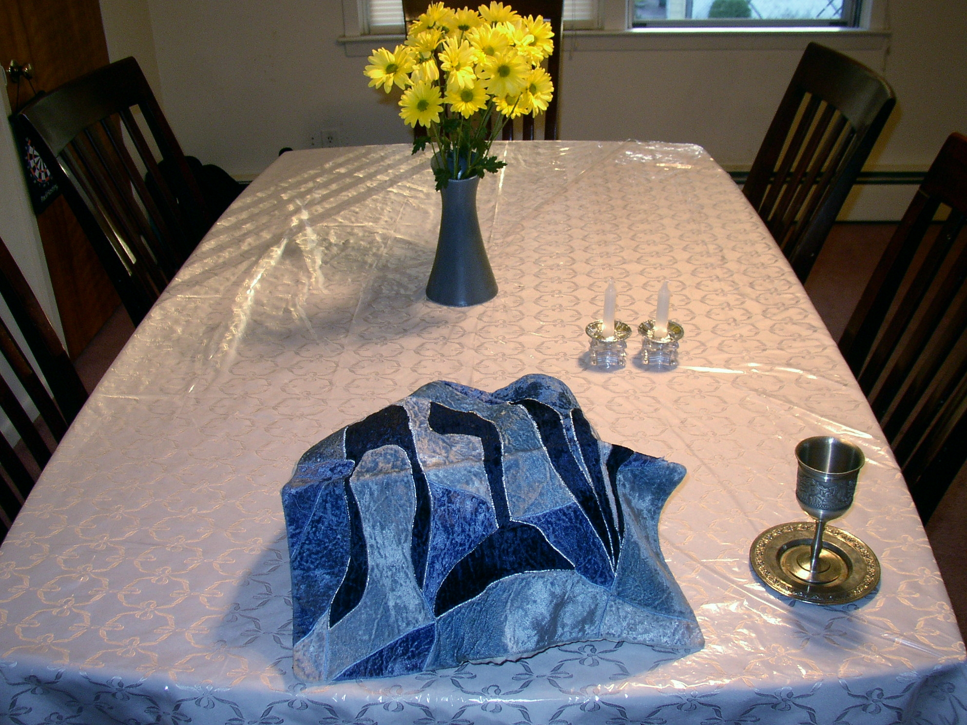 Shabbos (shabbat) table at my house, a few minutes before sundown